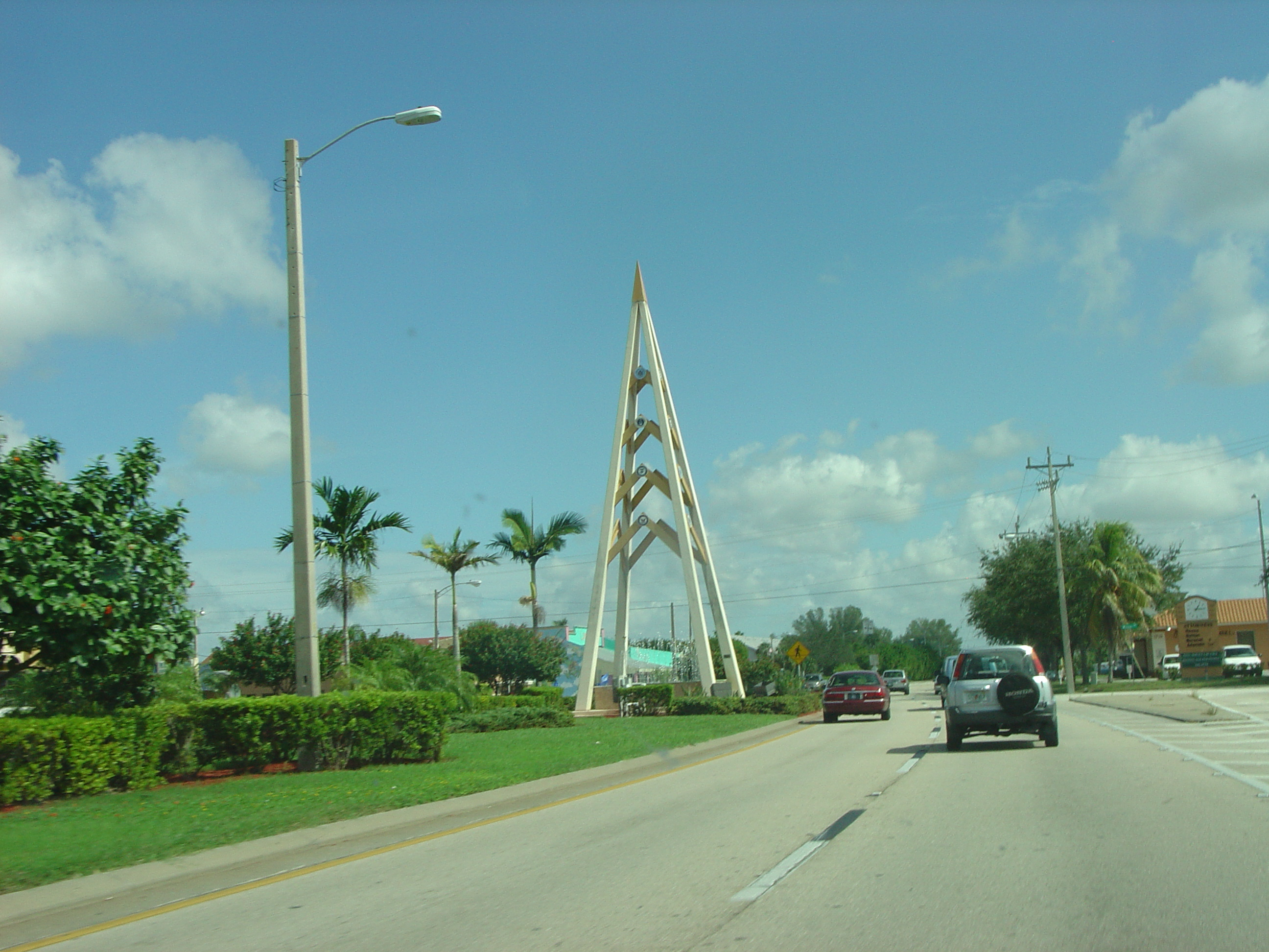 The monument in the median of Cape Coral Parkway, at the foot of the Cape Coral Bridge.